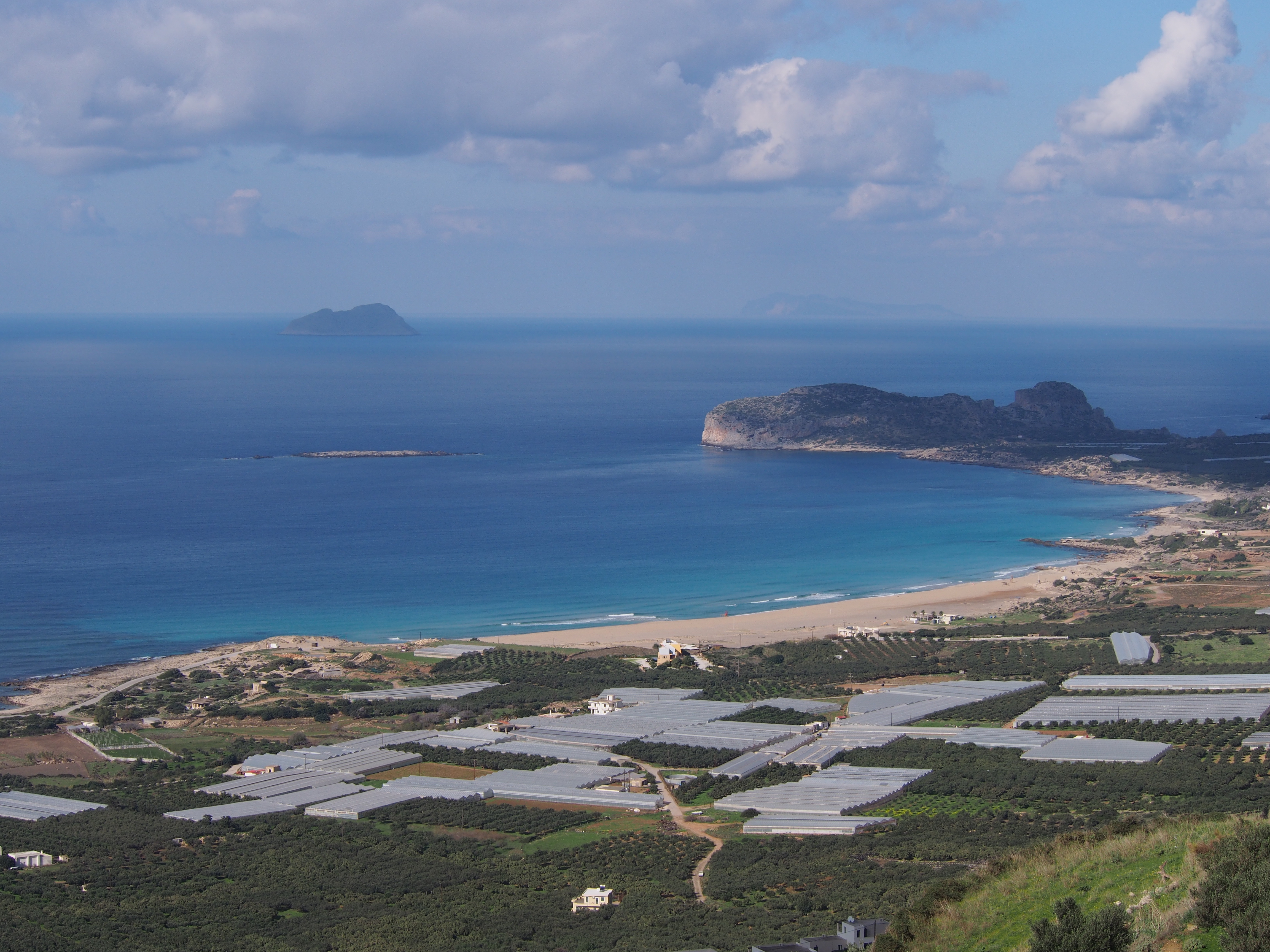 Panoramic view of Phalasarna beach at west Crete.